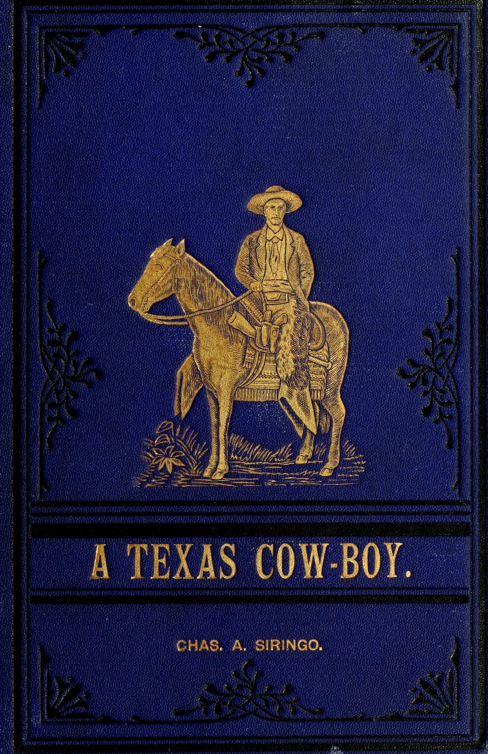 From: C. Siringo. A Texas Cowboy; Or Fifteen Years on the Hurricane Deck of a Spanish Pony (1886)